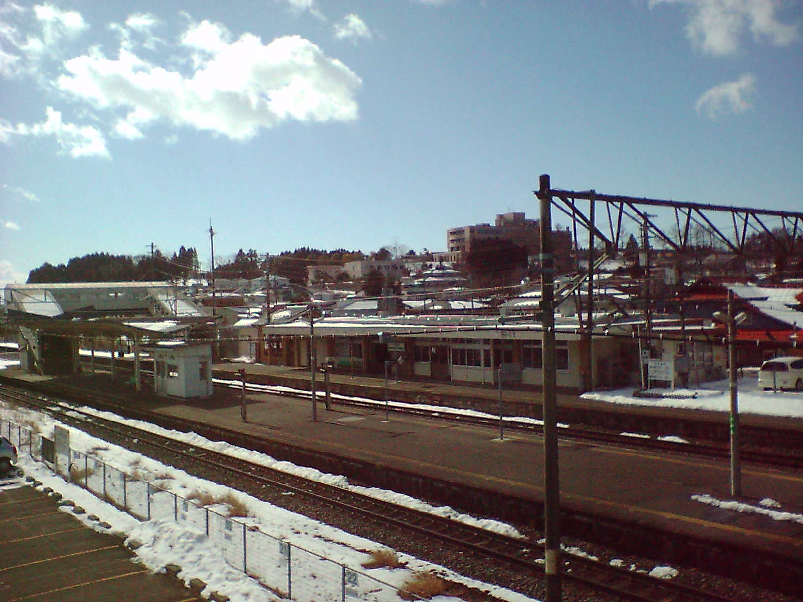 Semine Station of the Tohoku Main Line. Semine, Miyagi, Miyagi prefecture, Japan.